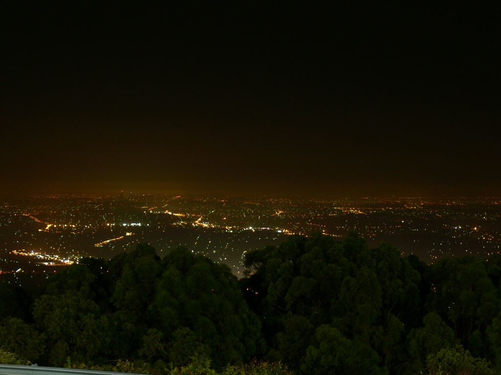 Photo of Melbourne by night, taken from Mount Dandenong on the 10th January 2008.